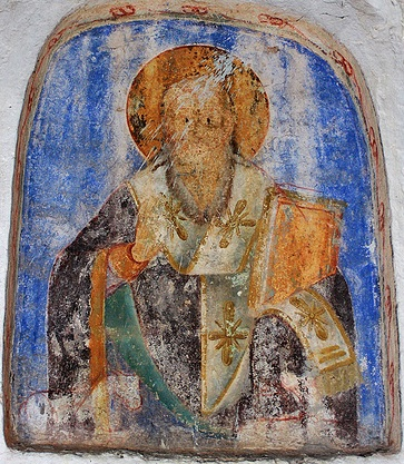 Icon of St. Nicolas in the church "St. Nicolas" in Vontou, Greece